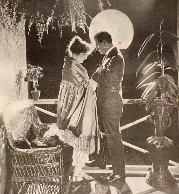 Still from the American film April Folly (1920) with Marion Davies and Conway Tearle, on page 3095 of the April 3, 1920 Motion Picture News.